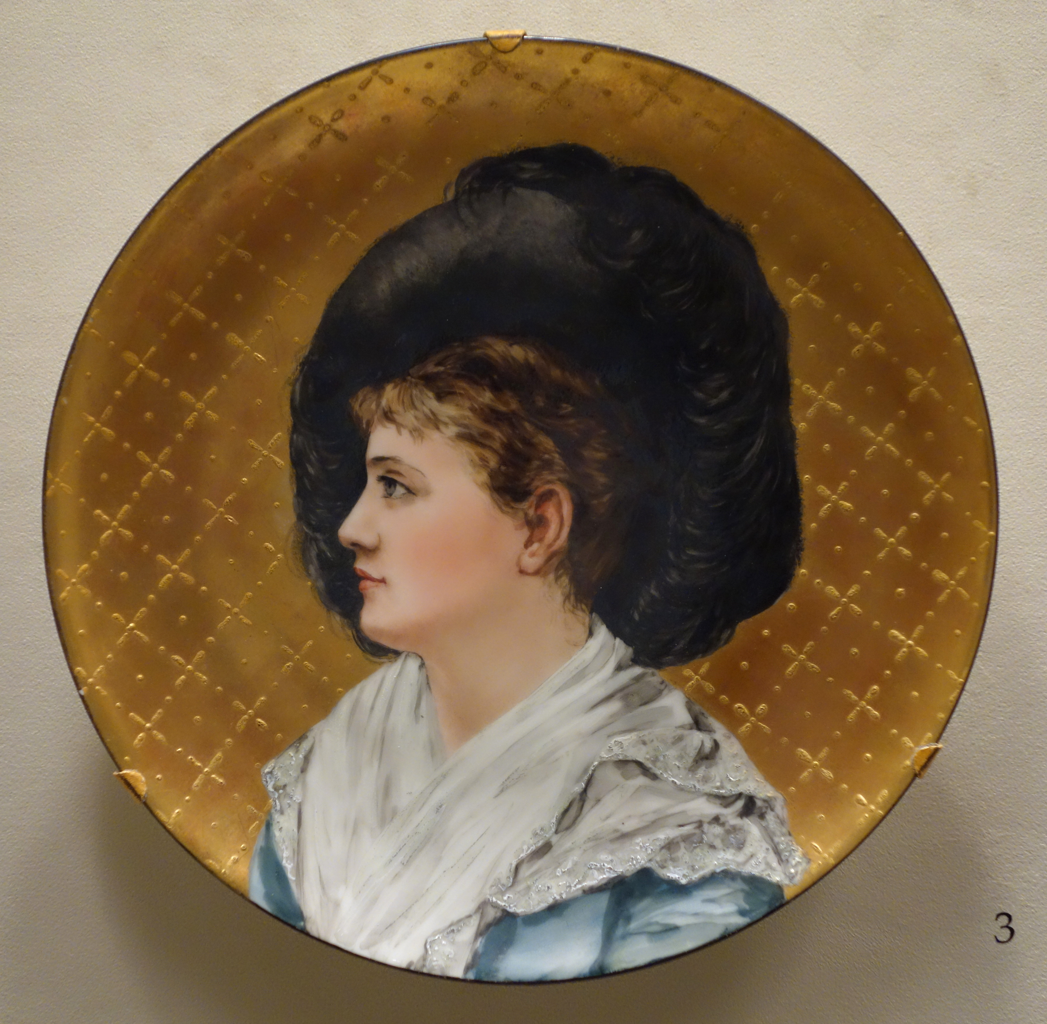 Exhibit in the Cincinnati Art Museum, Cincinnati, Ohio, USA. This artwork is in the public domain because the artist died more than 70 years ago.